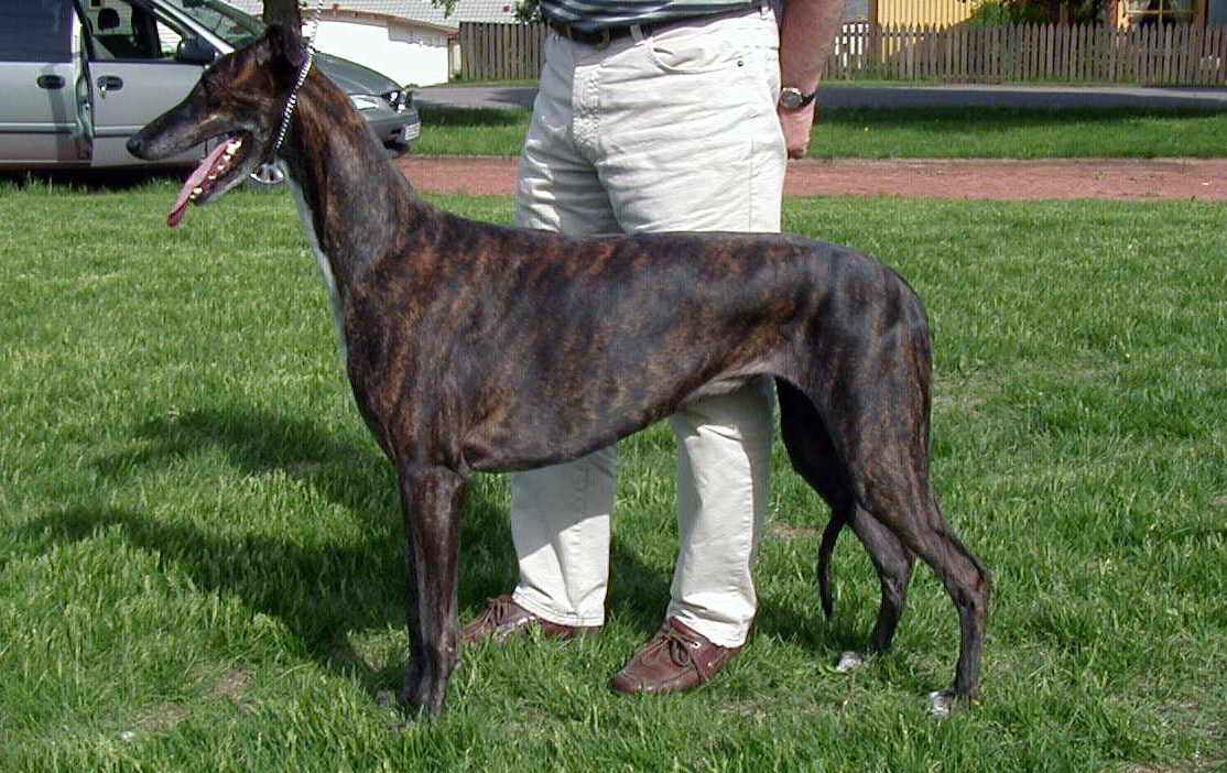 Greyhound female dog